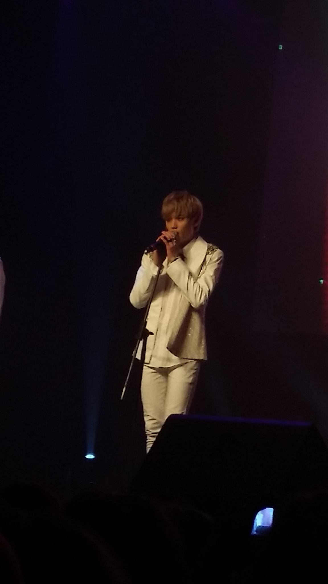 Teen Top concert, Budapest